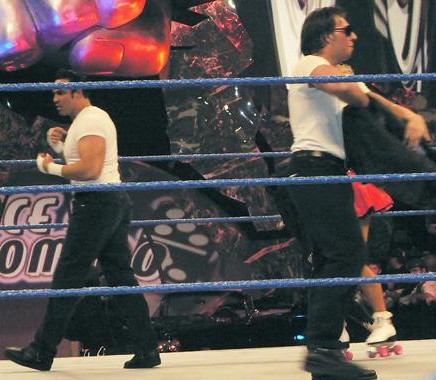 A pic of Deuce N Domino I took at a Smackdown! live event in 2006 at Cincinnati Ohio.